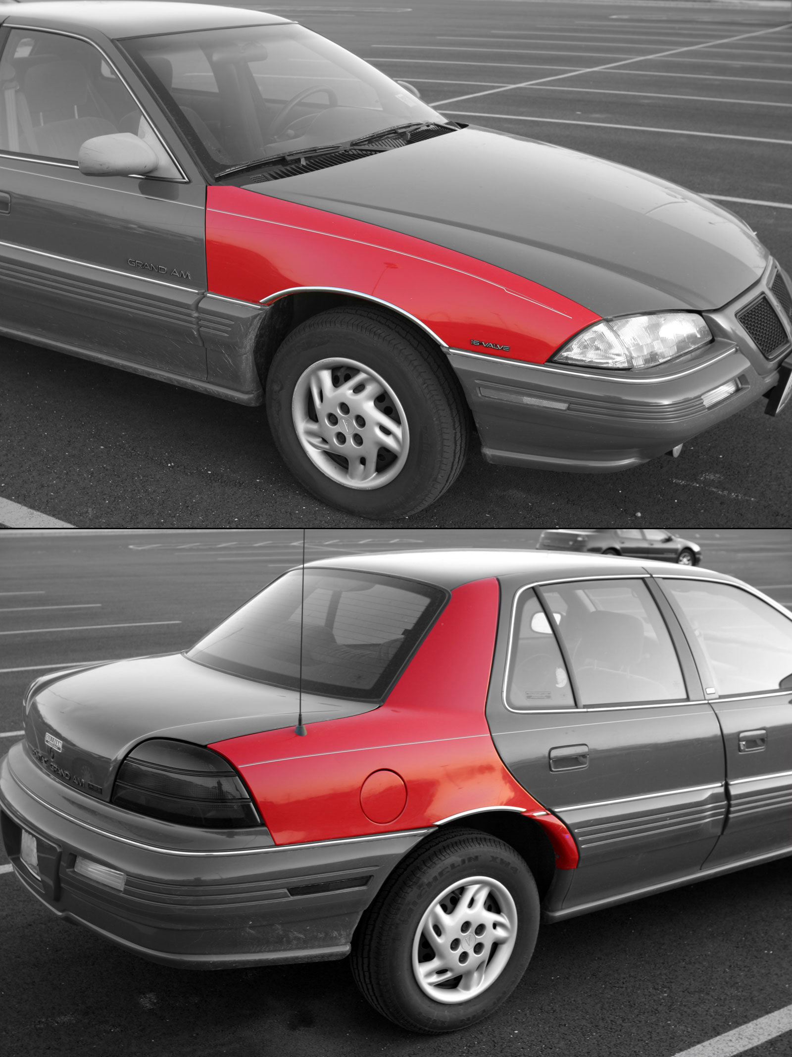 Front and rear quarterpanels on a Pontiac Grand Am.